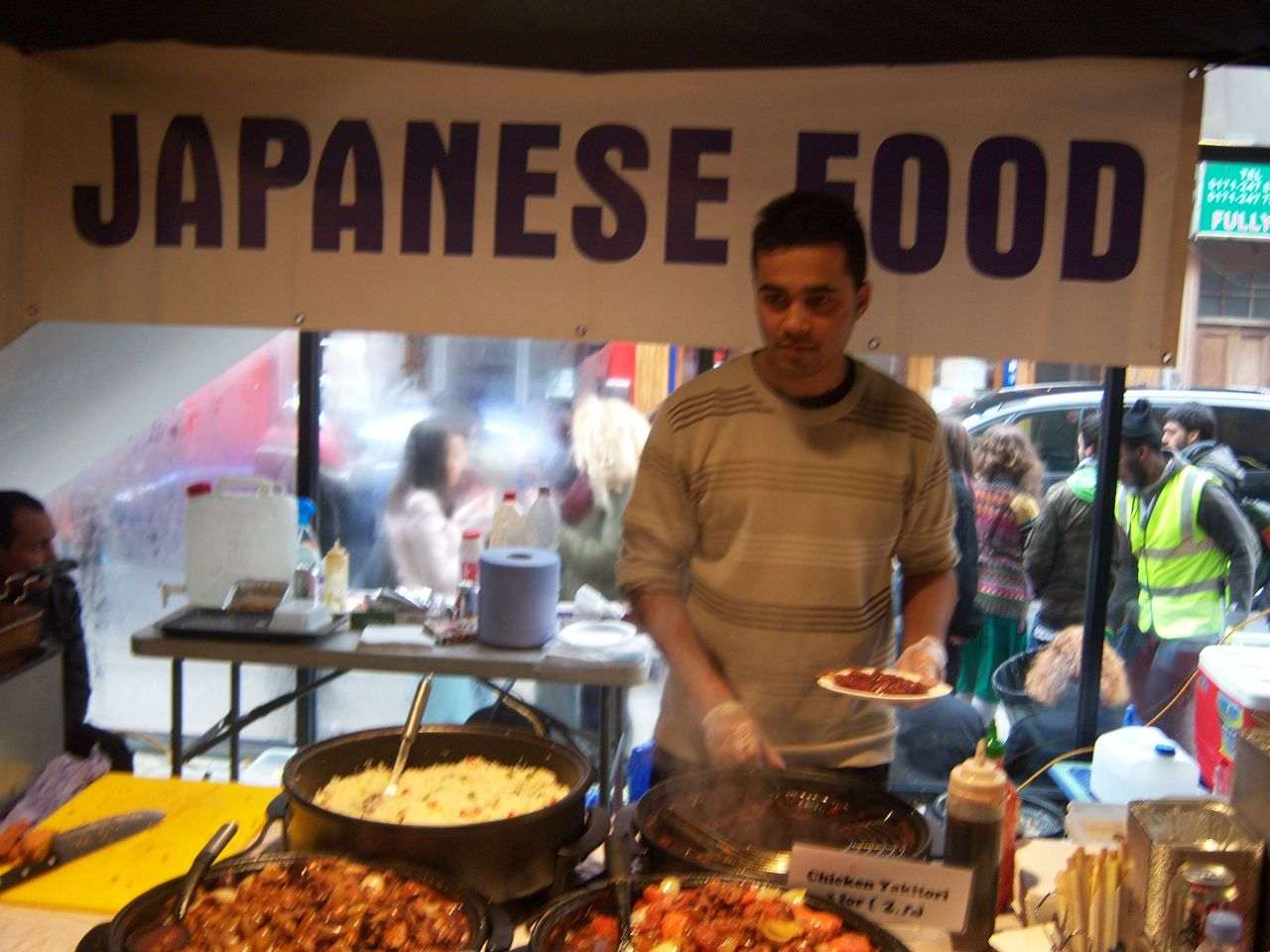 Japanese food stand at Boiler House Food Hall